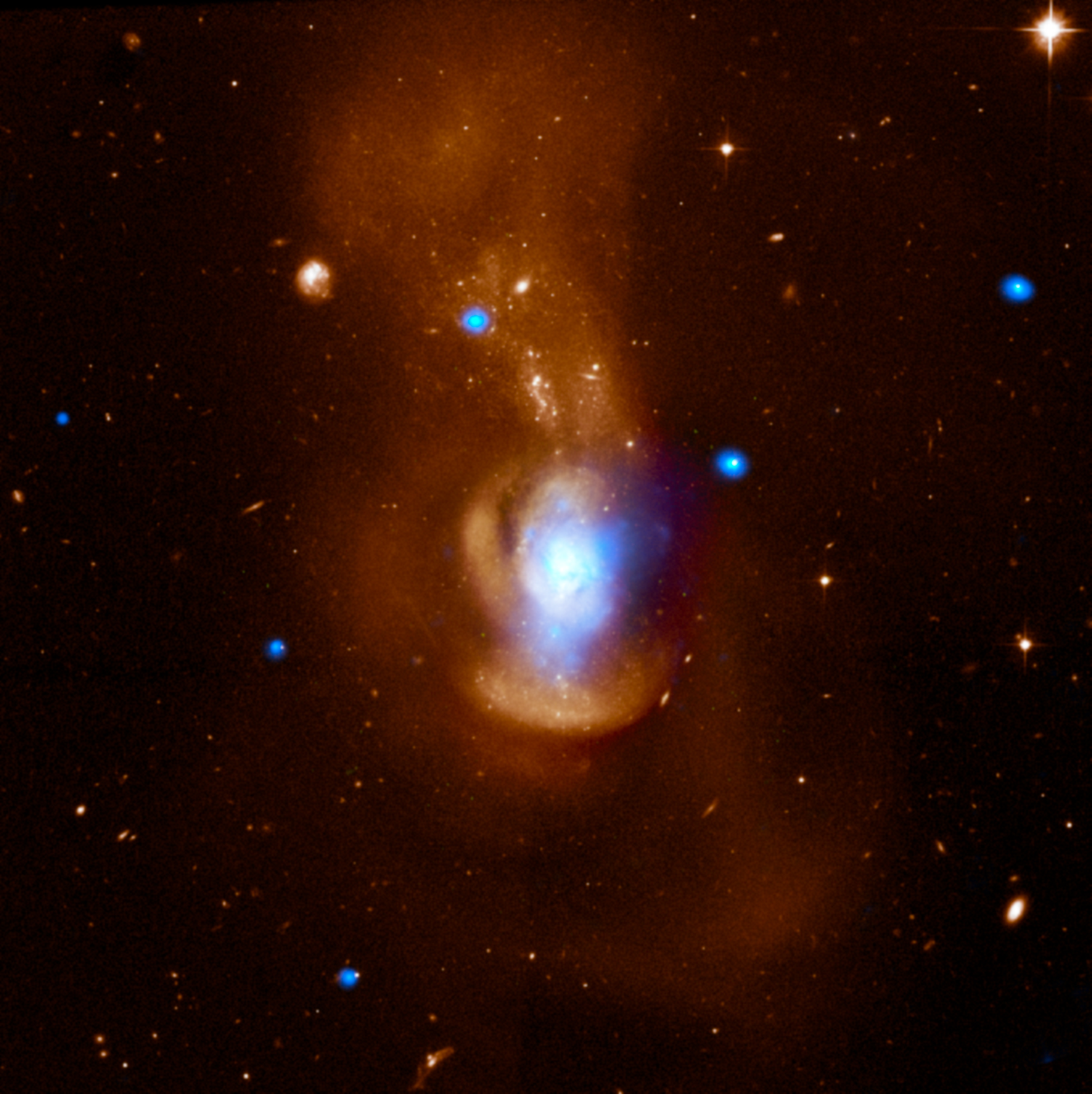 Description: This image of NGC 4194 is a composite of X-rays from Chandra (blue) and optical light data from Hubble (orange). Located above the center of the galaxy, the "hair" of the Medusa is a tidal tail formed by a collision between galaxies. The bright X-ray source found on the left side of Medusa's hair is a black hole. A recent study of the Medusa galaxy and nine other galaxies measured the correlation between the formation of stars and the production of X-ray binaries. These X-ray binaries appear as the bright blue point-like sources in this image of Medusa. Creator/Photographer: Chandra X-ray Observatory NASA's Chandra X-ray Observatory, which was launched and deployed by Space Shuttle Columbia on July 23, 1999, is the most sophisticated X-ray observatory built to date. The mirrors on Chandra are the largest, most precisely shaped and aligned, and smoothest mirrors ever constructed. Chandra is helping scientists better understand the hot, turbulent regions of space and answer fundamental questions about origin, evolution, and destiny of the Universe. The images Chandra makes are twenty-five times sharper than the best previous X-ray telescope. NASA's Marshall Space Flight Center in Huntsville, Ala., manages the Chandra program for NASA's Science Mission Directorate in Washington. The Smithsonian Astrophysical Observatory controls Chandra science and flight operations from the Chandra X-ray Center in Cambridge, Massachusetts. Medium: Chandra telescope x-ray Date: 2009 Persistent URL: Repository: Smithsonian Astrophysical Observatory Gift line: X-ray: NASA/CXC/Univ of Iowa/P.Kaaret et al.; Optical: NASA/ESA/STScI/Univ of Iowa/P.Kaaret et al. Accession number: medusa